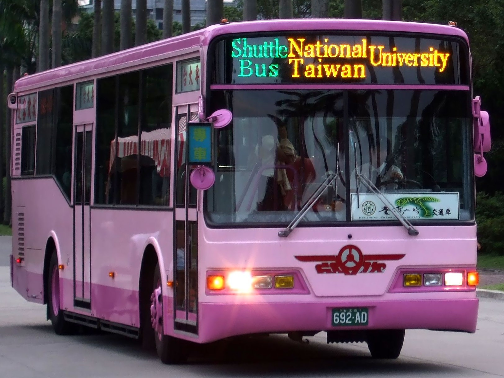 A school bus at National Taiwan University.